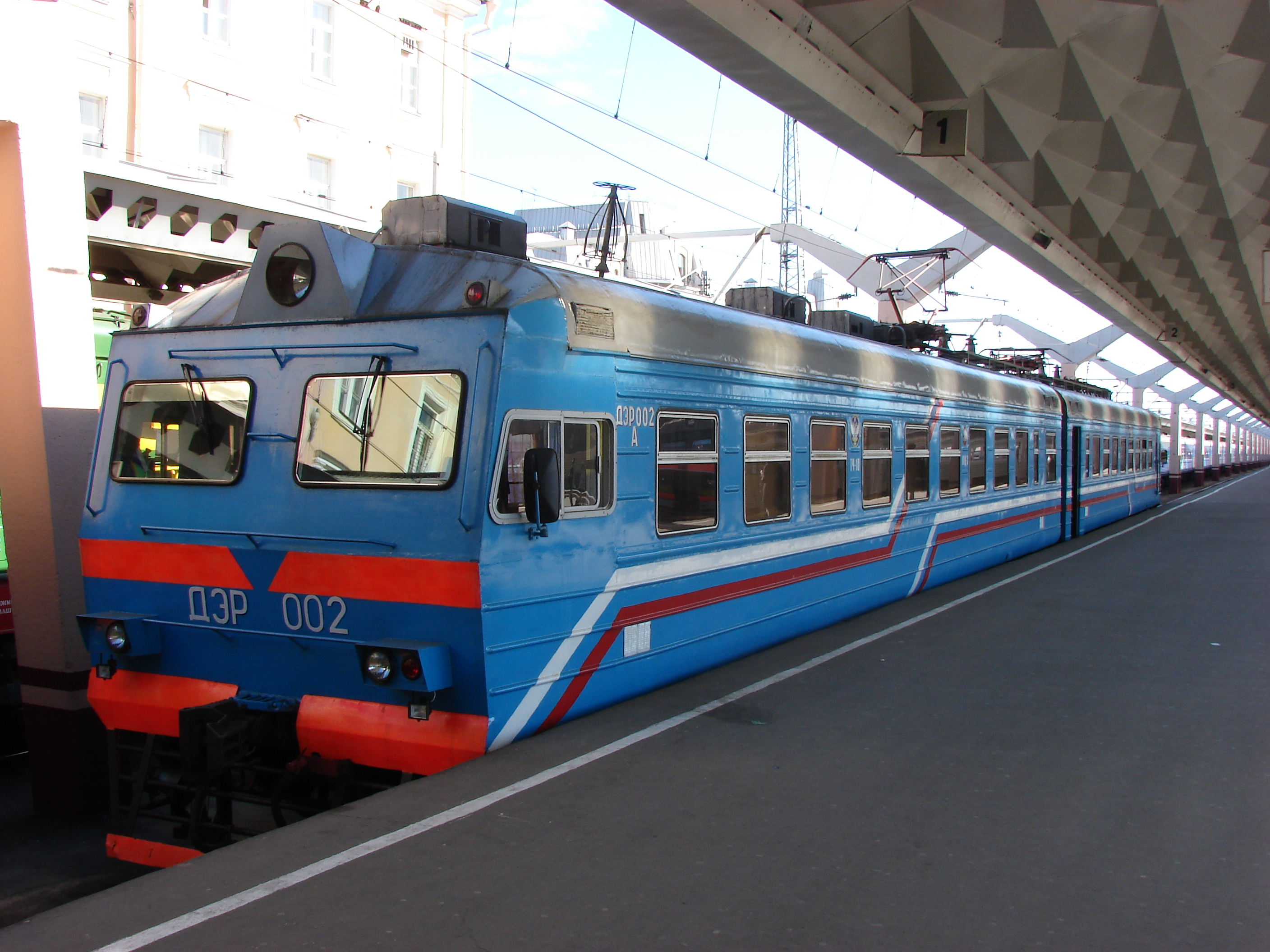 Railcar DER made from electric train ER2